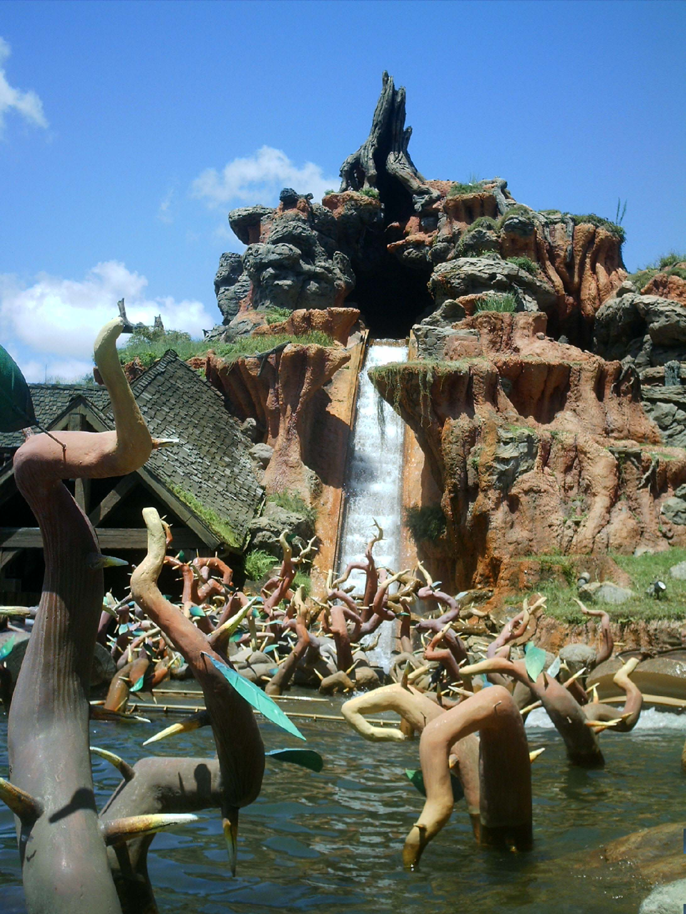 View of WDW Splash Mountain main drop.